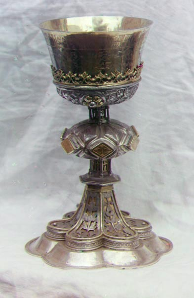 Chalice in the vestry of the Ipatevskii Monastery in Kostroma.